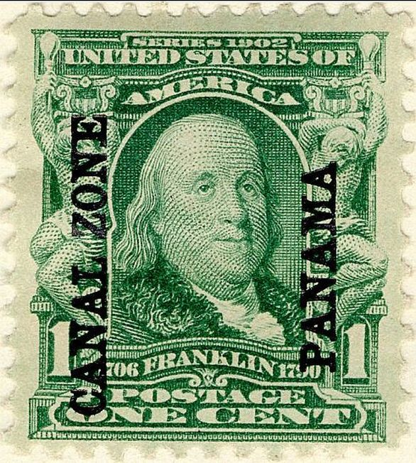 US regular issues of 1902-1903, overprinted for use as Canal Zone stamps, issued on July 19, 1904